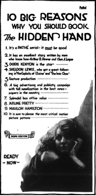 Advertisement for the American film serial The Hidden Hand (1917) with Doris Kenyon, on page 49 of the November 23, 1917 Variety.